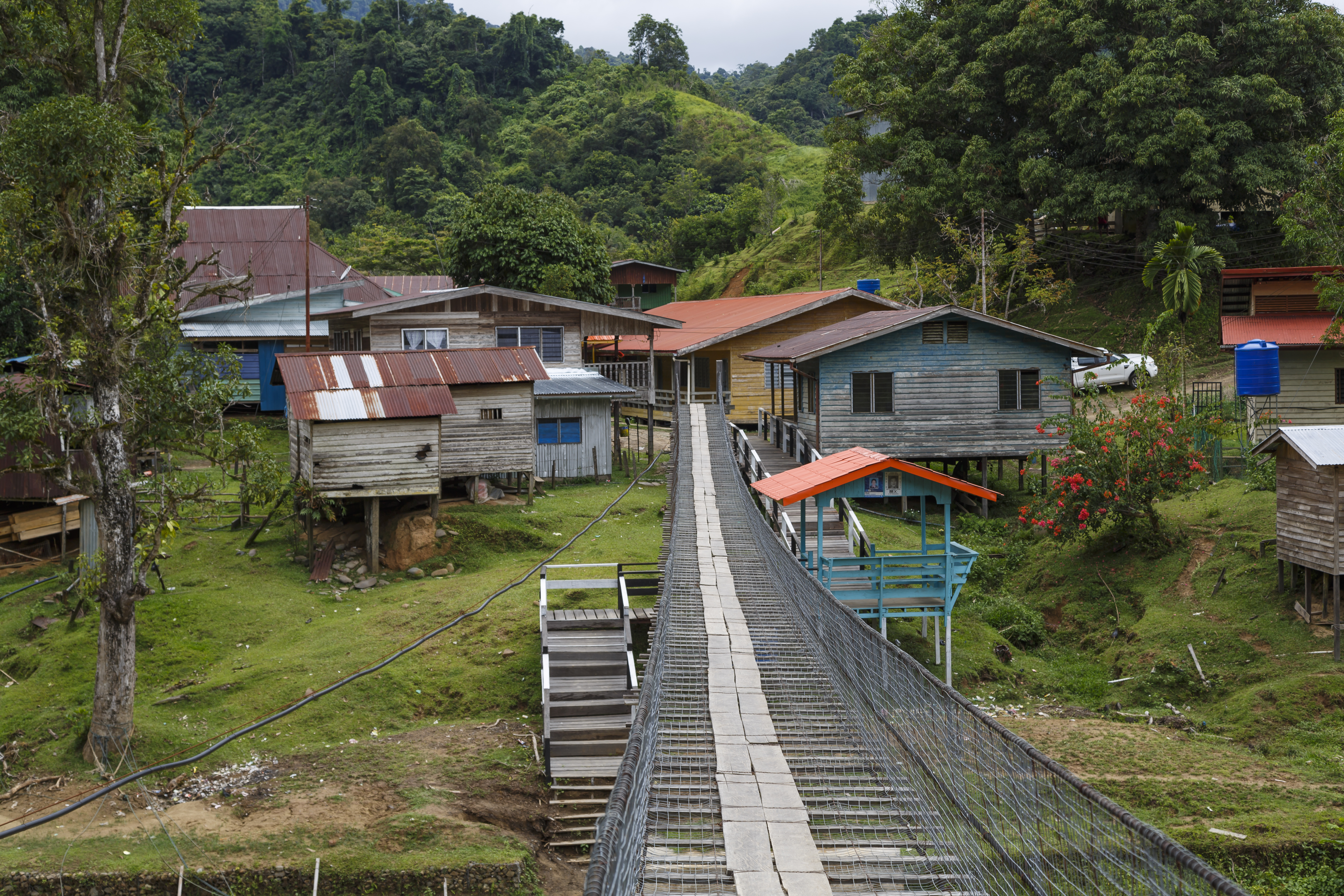 Pensiangan, Sabah, Malaysia: View of a part of Pekan Pensiangan and Sungai Tagol